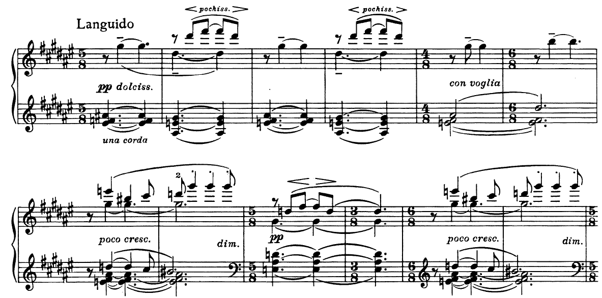 Bars 13-24 of Scriabin's 5th Sonata